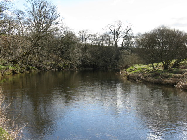 The Kinnel Water, heading south towards the River Annan.